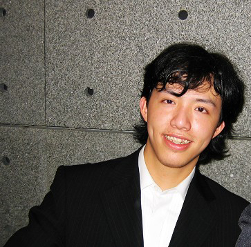 Yundi Li at Cutural Center, Macau